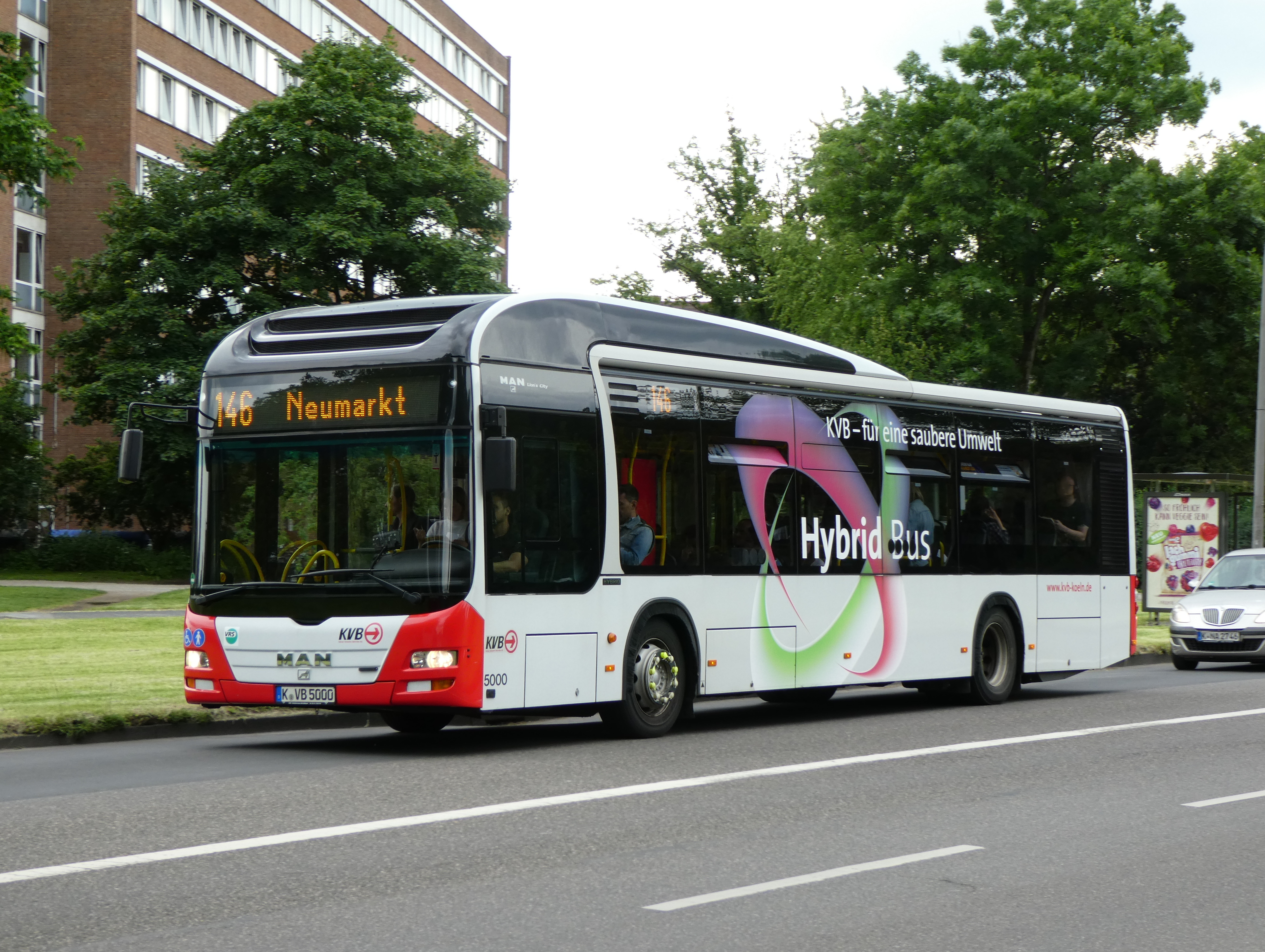 MAN Lion's City Hybrid in Cologne